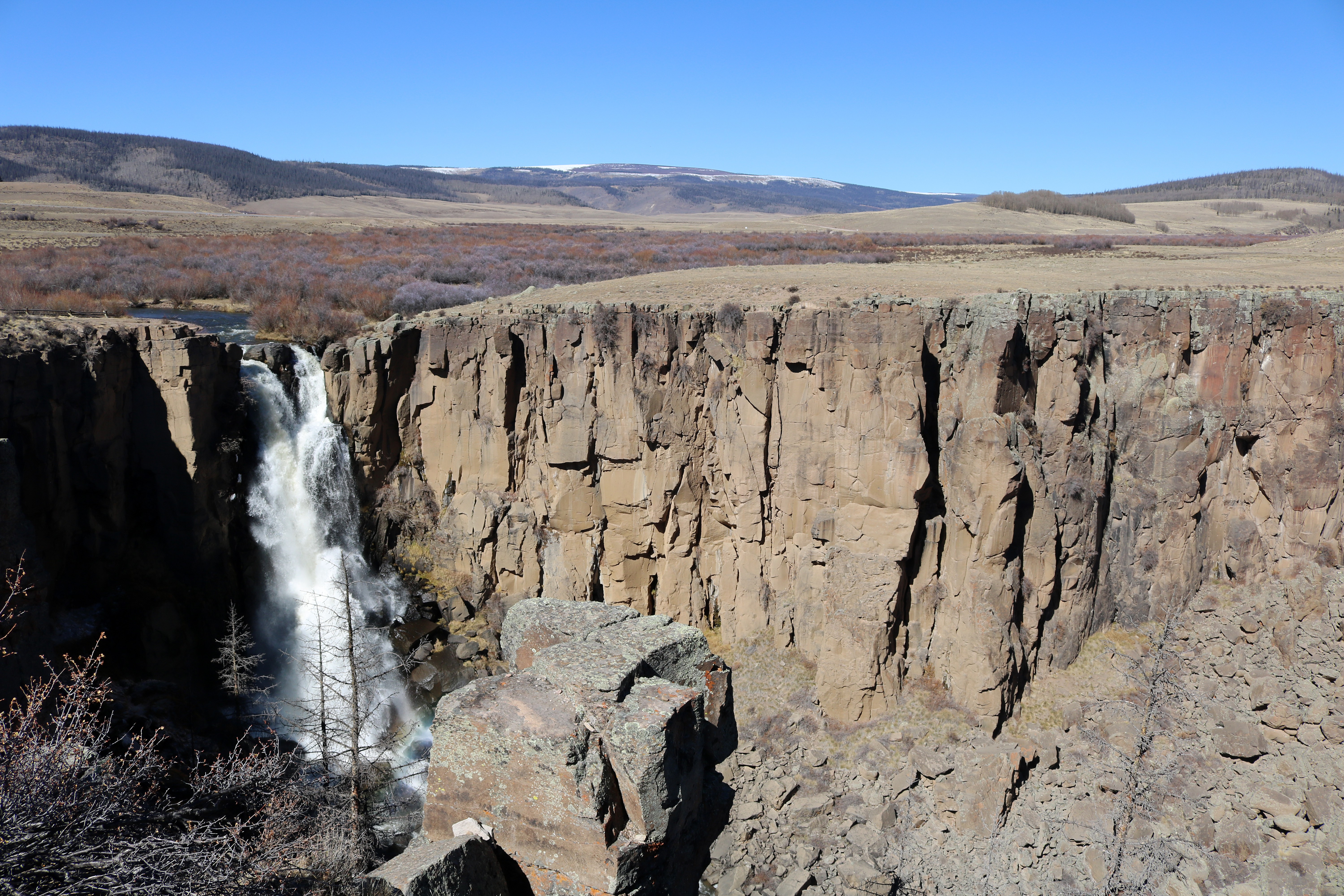 North Clear Creek Falls in Hinsdale County, Colorado. The rock to the right of the falls is Nelson Mountain tuff.